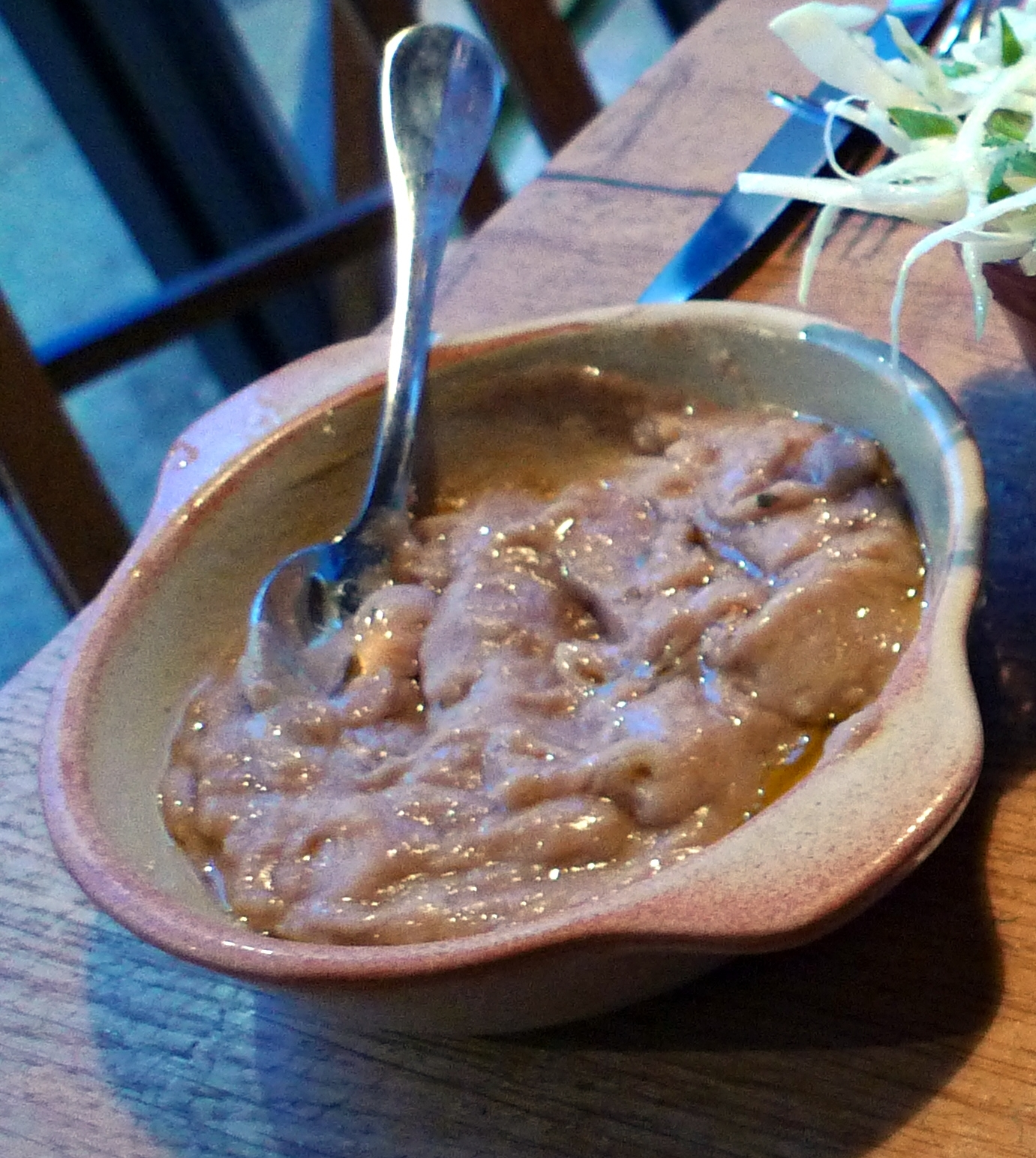 Refried beans